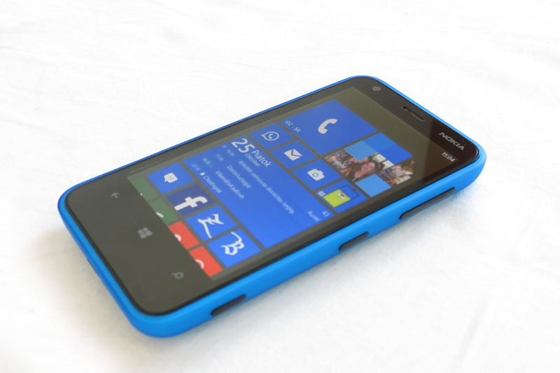 Nokia Lumia 620 cyan showing main screen of Windows Phone 8 operating system.